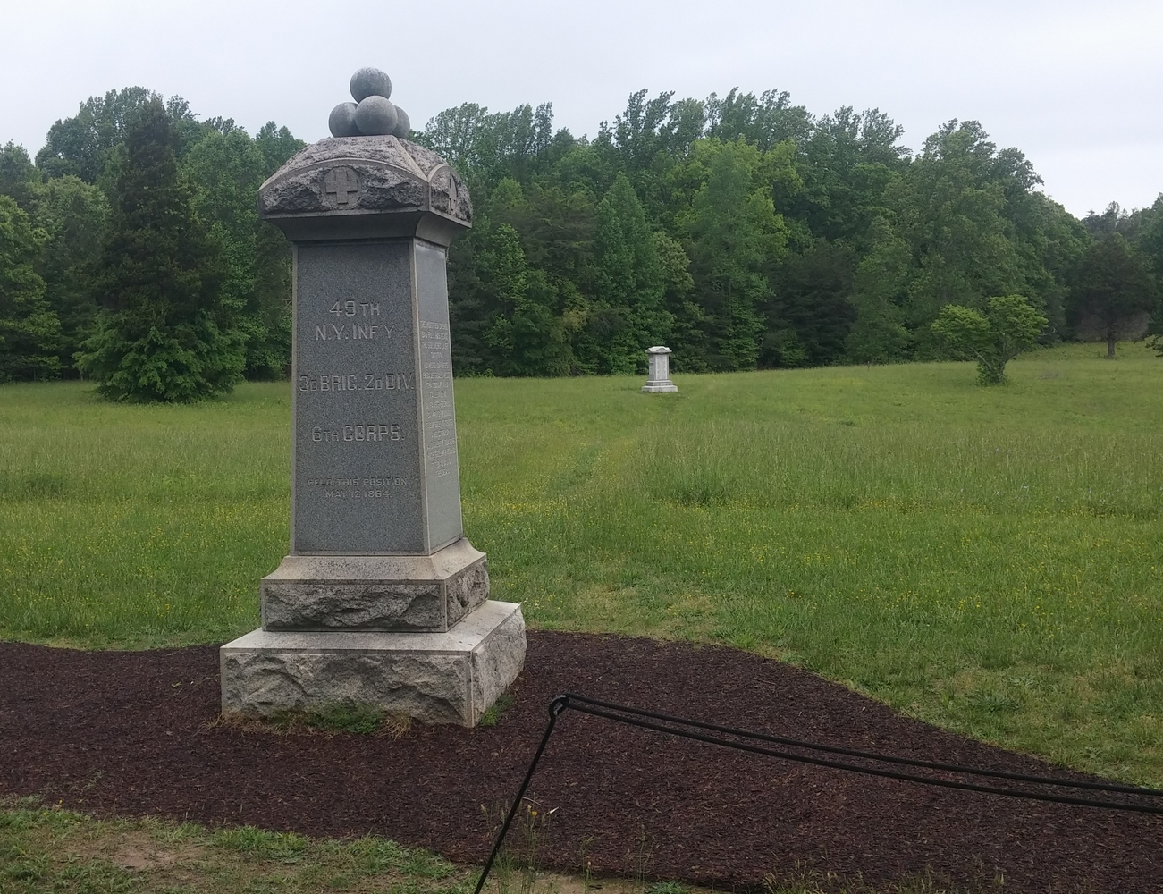 49 NY infantry monument at Spotsilvania.